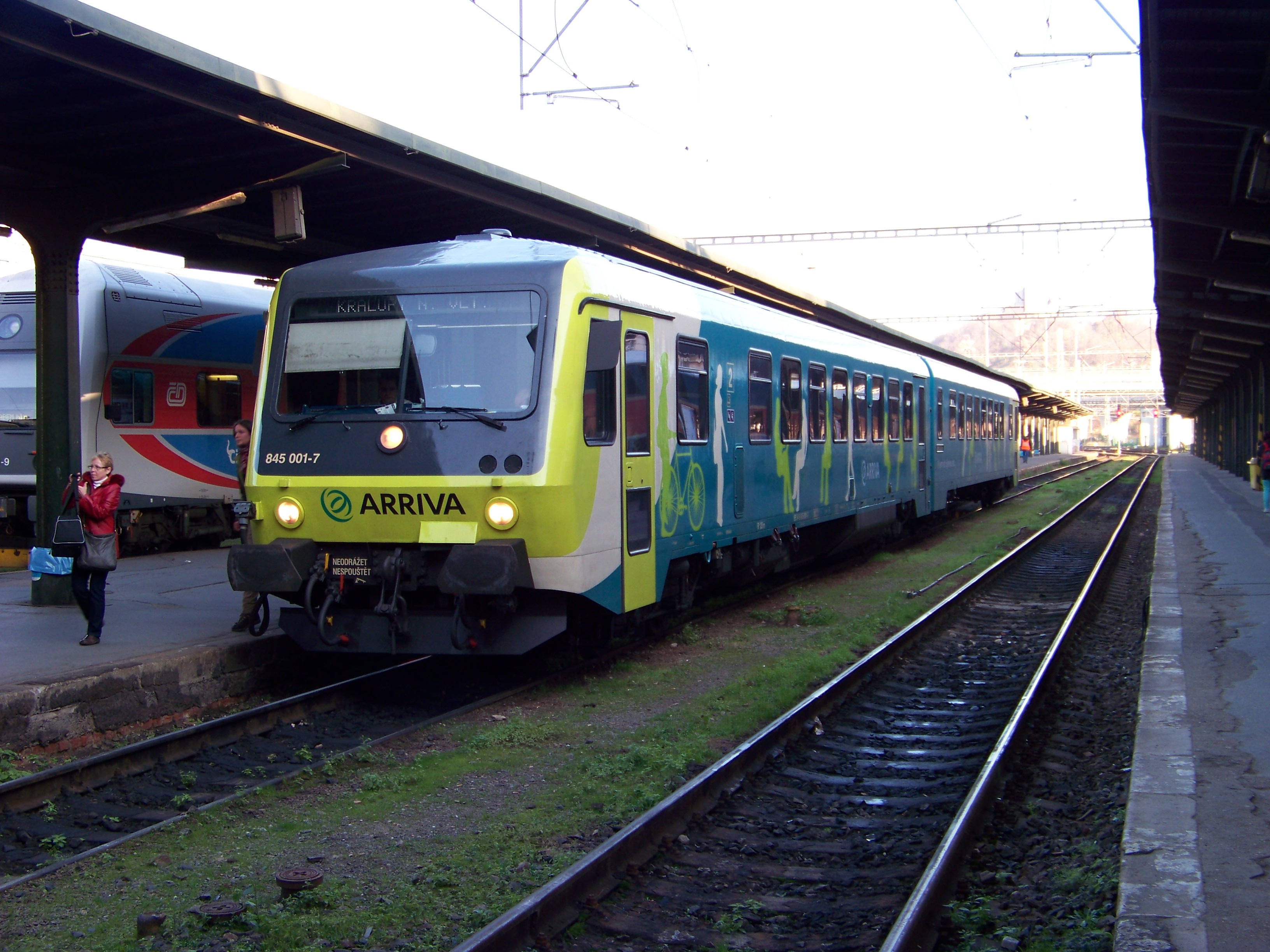 Prague-New Town. Masaryk Station, a motor unit 845 of Arriva vlaky.